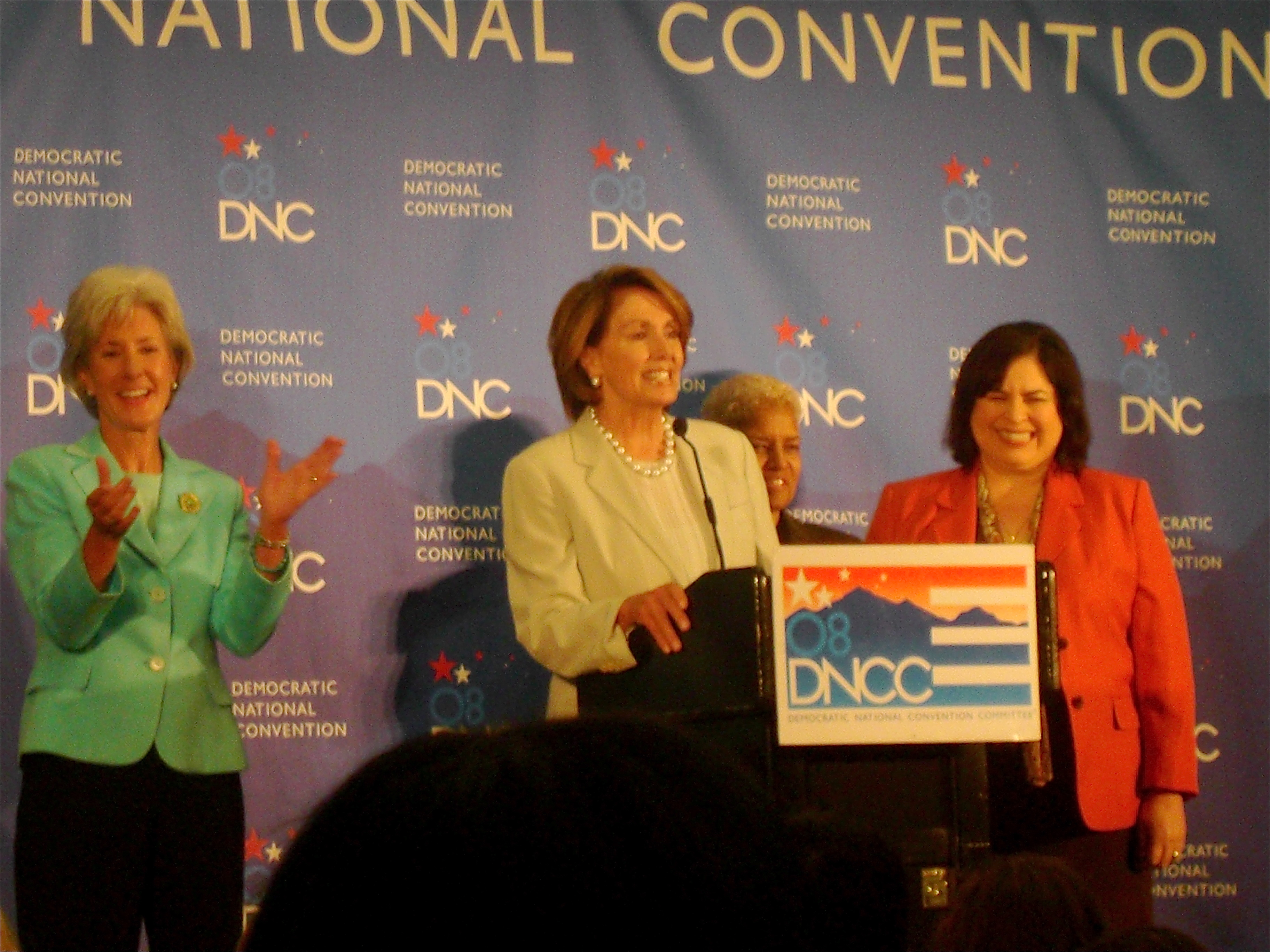 Nancy Pelosi speaks during a press conference at the Colorado Convention Center the day before the start of the 2008 Democratic National Convention in Denver, Colorado. From left, Kathleen Sebelius, Shirley Franklin, and Leticia R. Van de Putte look on.